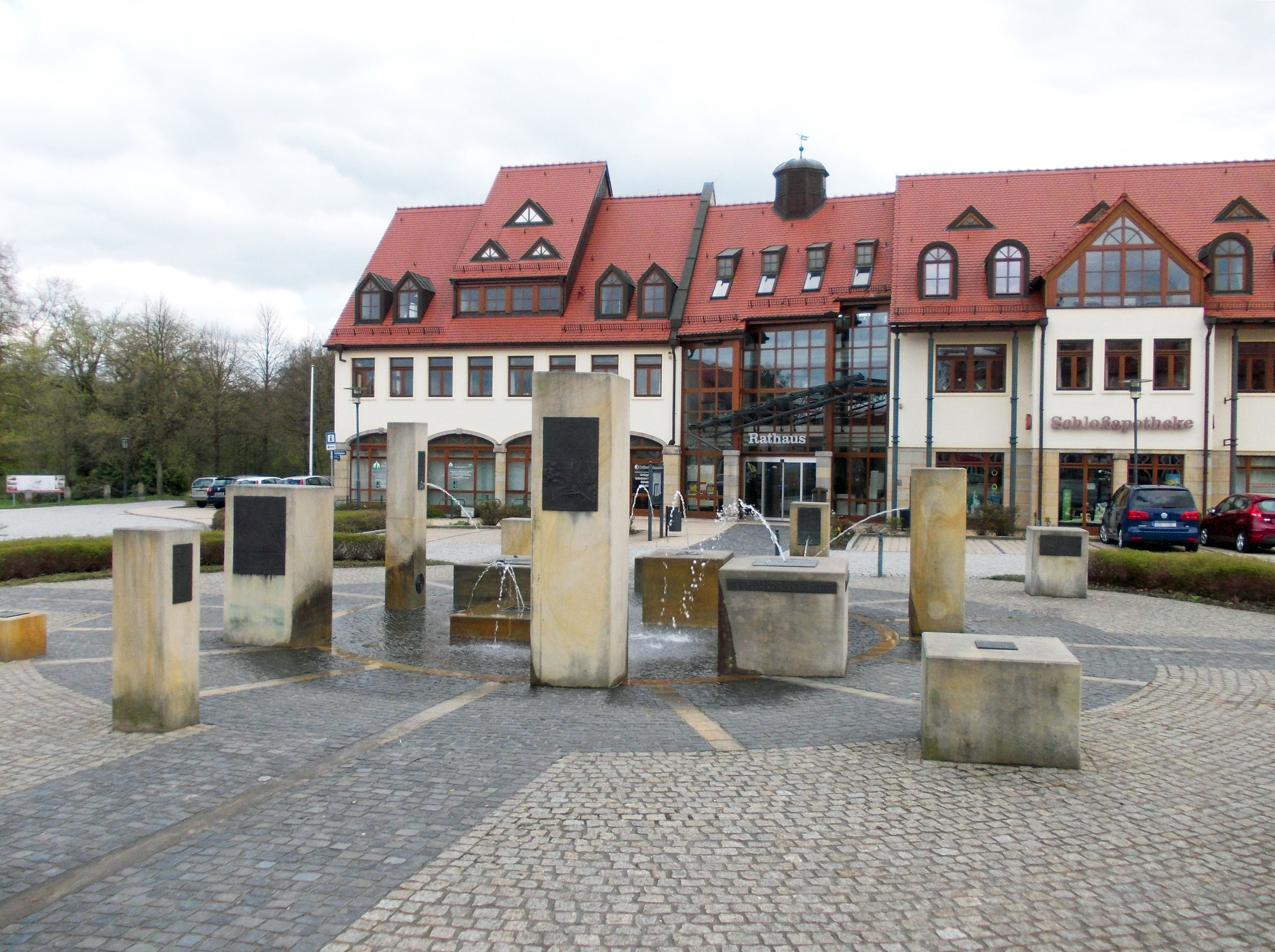 Fountain and town hall in Machern (Leipzig district, Saxony)